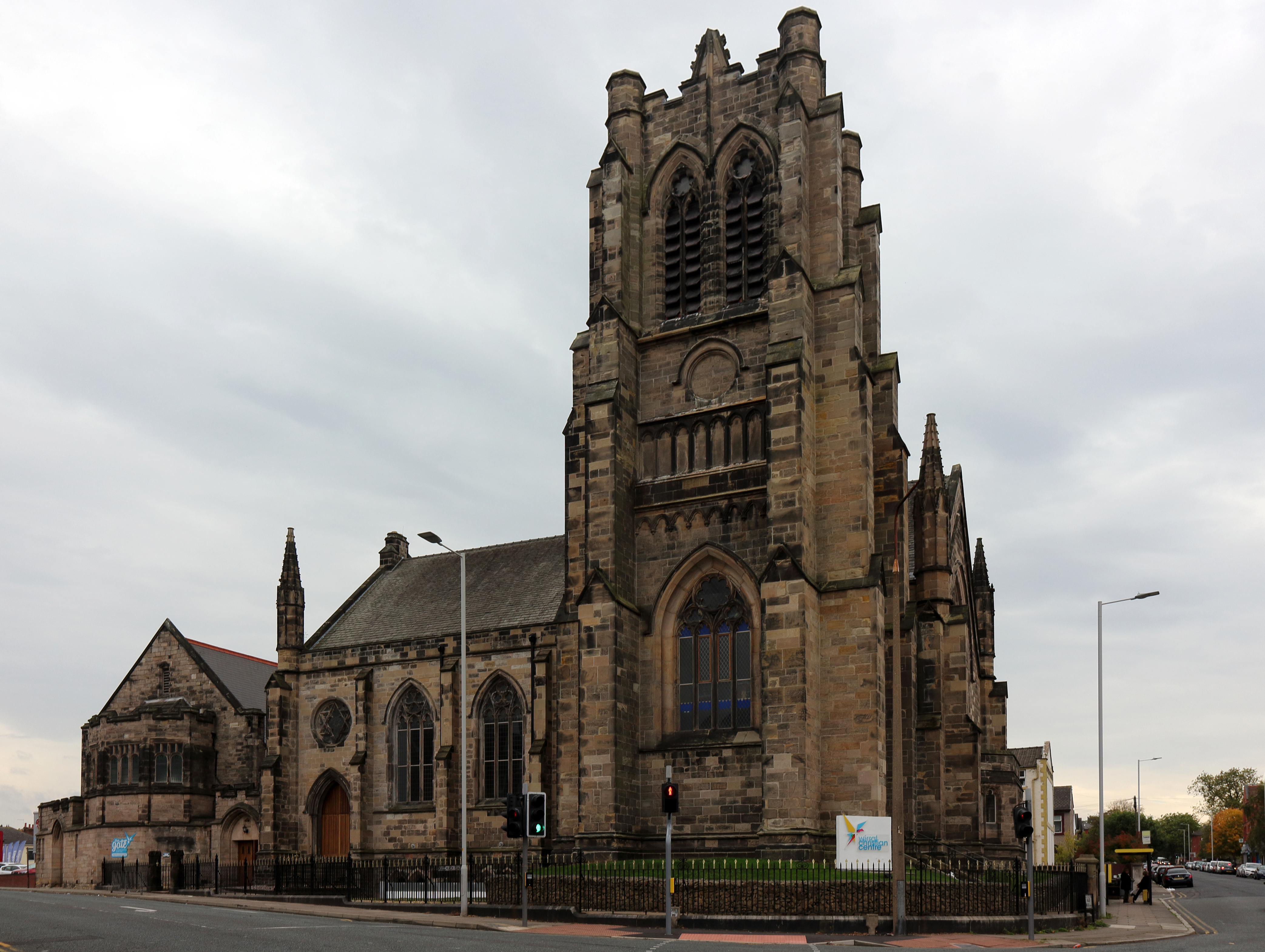 Grade II listed church, 1857-8, by William Cole. View across the junction from the corner of Balls Road and Oxton Road.